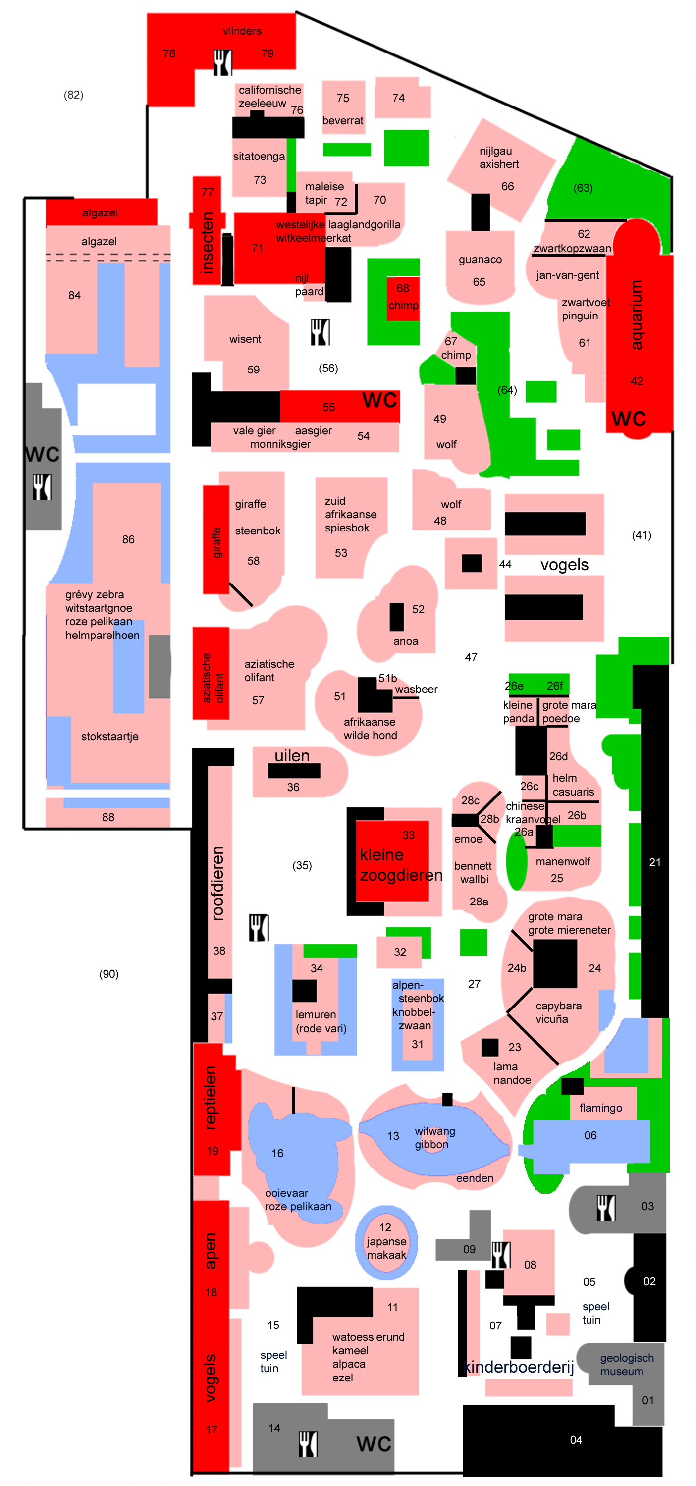 Map of Artis Zoo in Amsterdam, using a numbering system designed by myself.